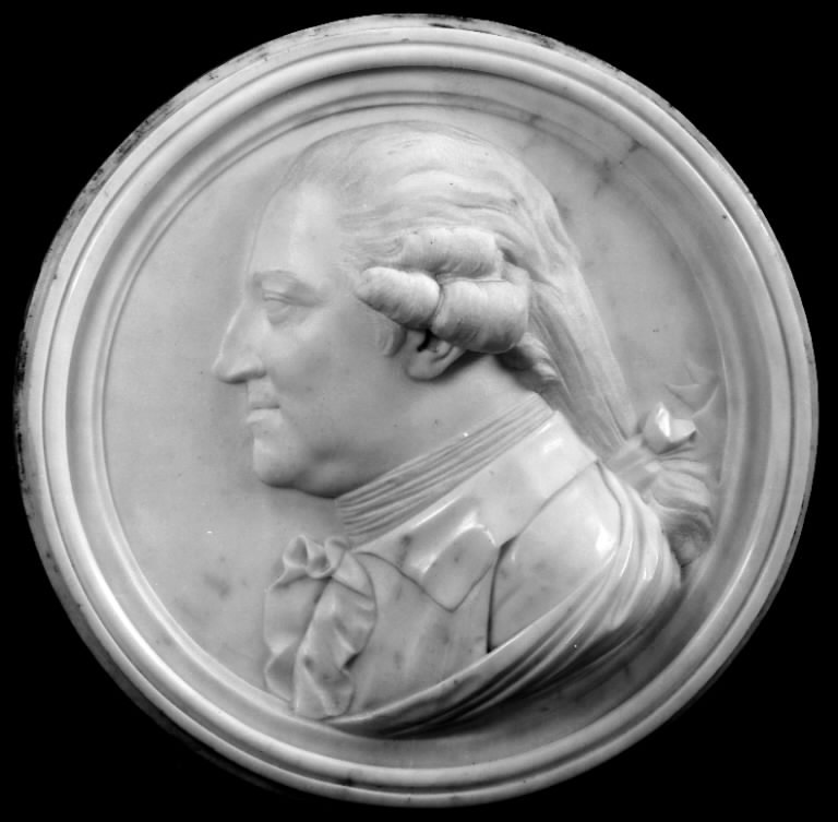 Luigi di Giuseppe Grossi (1799-1795), Conrad Alexander Fabritius de Tengnagel, 1780-1784